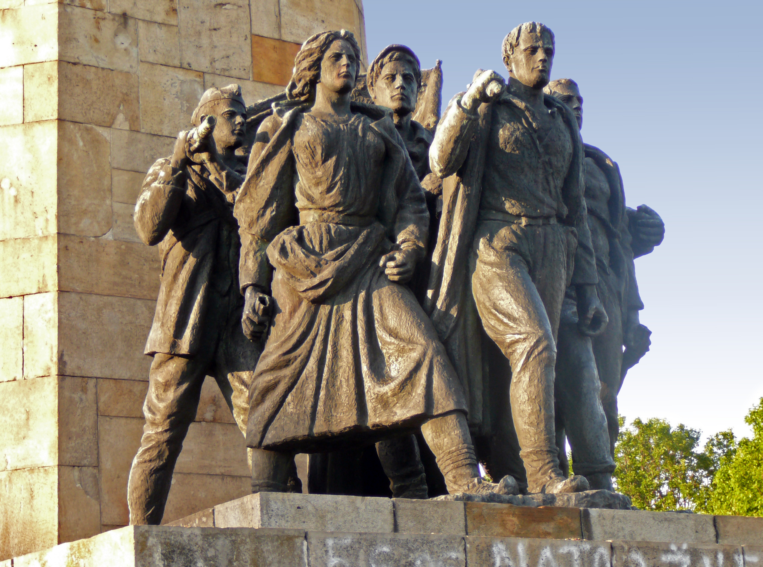 Detail of monument Sloboda (meaning: Freedom) on Iriški venac (top of Fruška Gora). The monument was made in 1951. in the memory of fighters of Yugoslav Front in World War II. The author of the monument is sculptor Sreten Stojanović